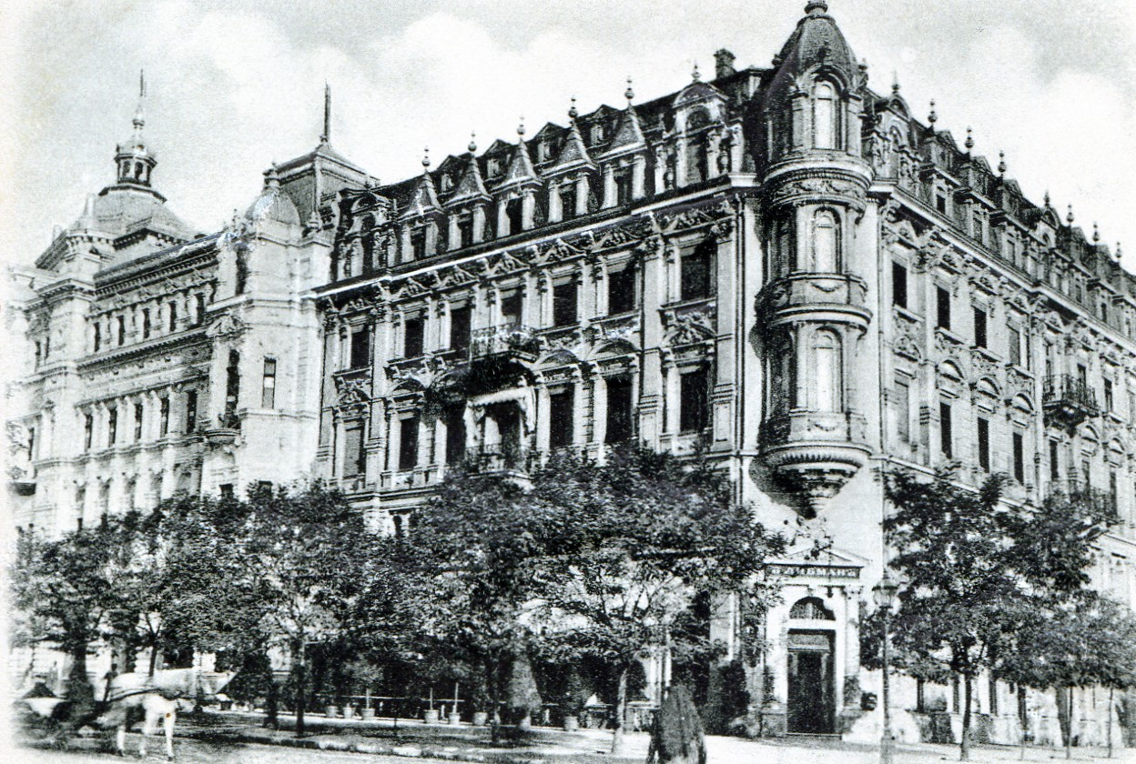 Old Carte Postale of Odessa cafe «Libman». End XIX century